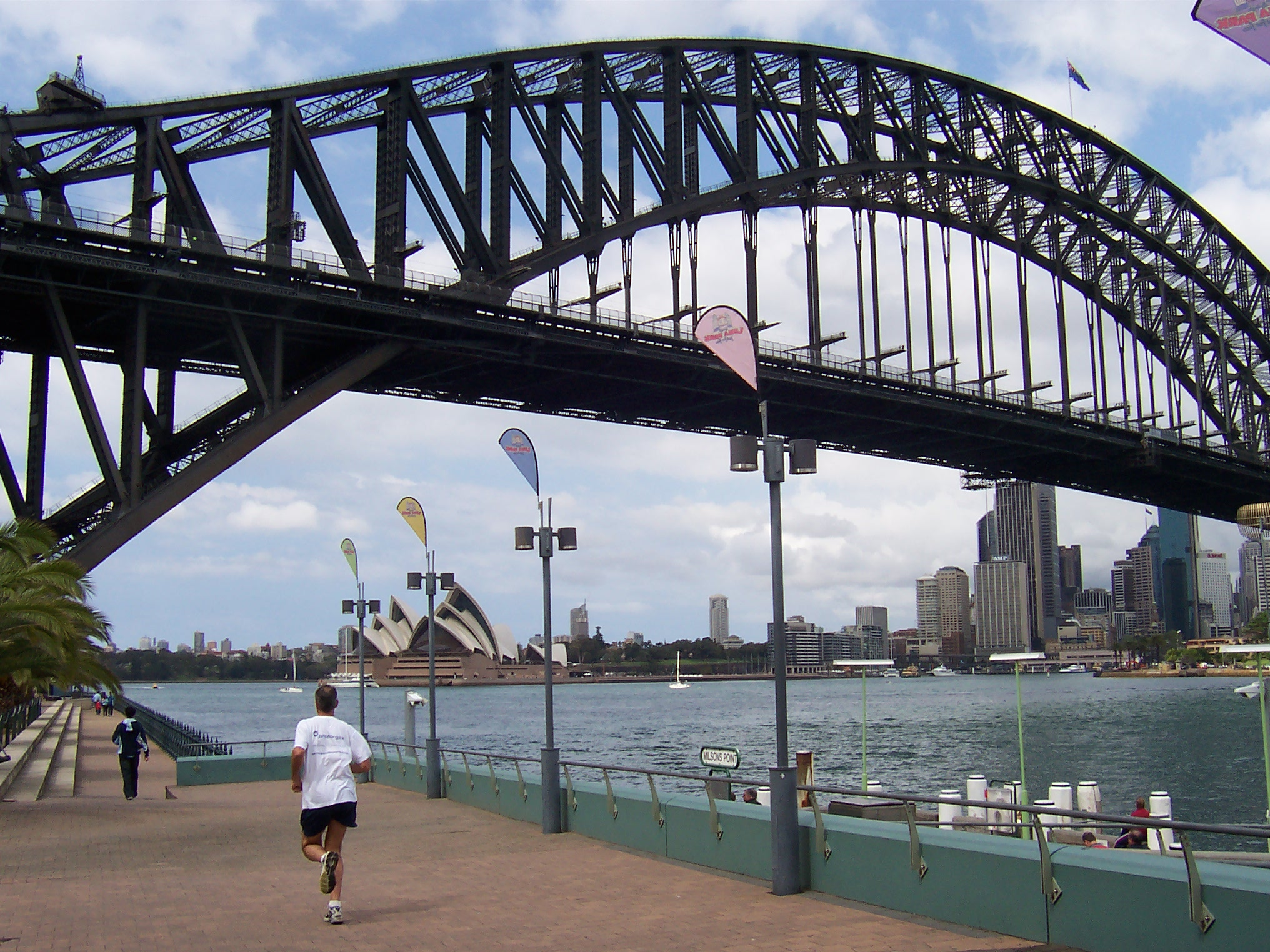 Author - Myself (Bryce roney) 'Location - Sydney, Australia Sydney Opera House, Sydney Harbour Bridge from the South.